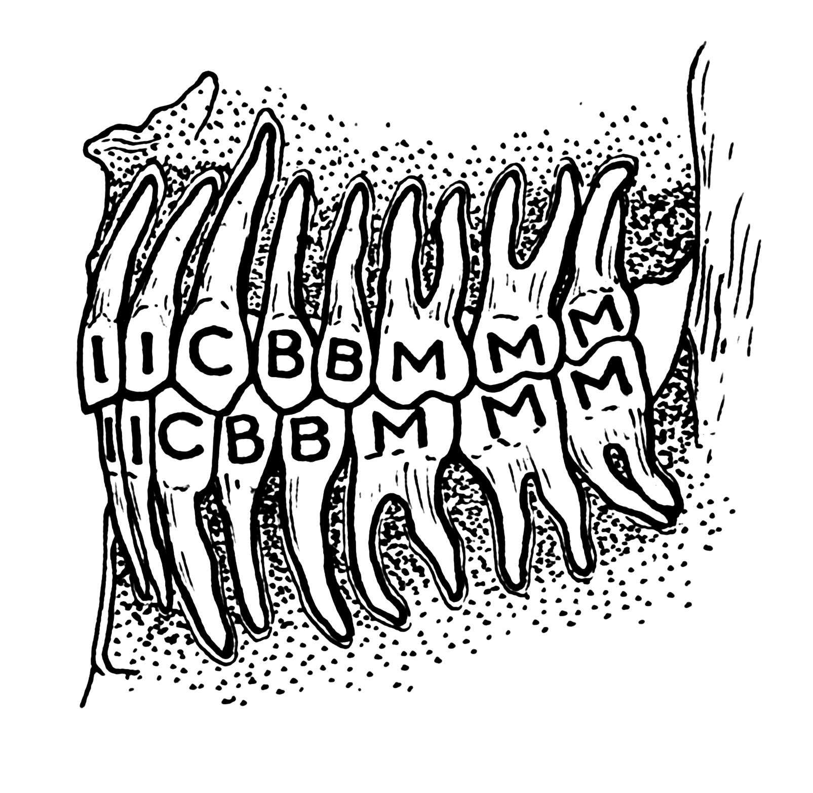 Teeth